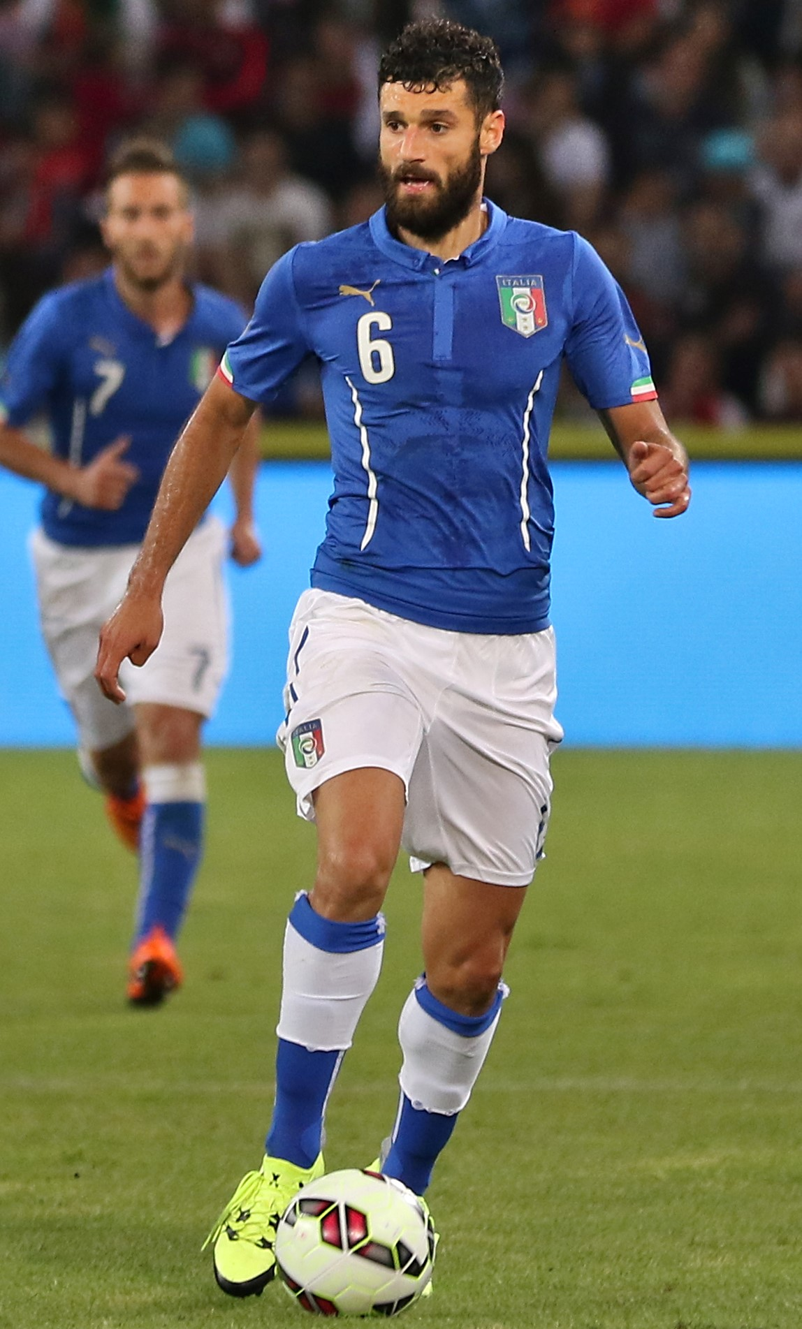 20150616 - Portugal - Italie - Genève - Antonio Candreva